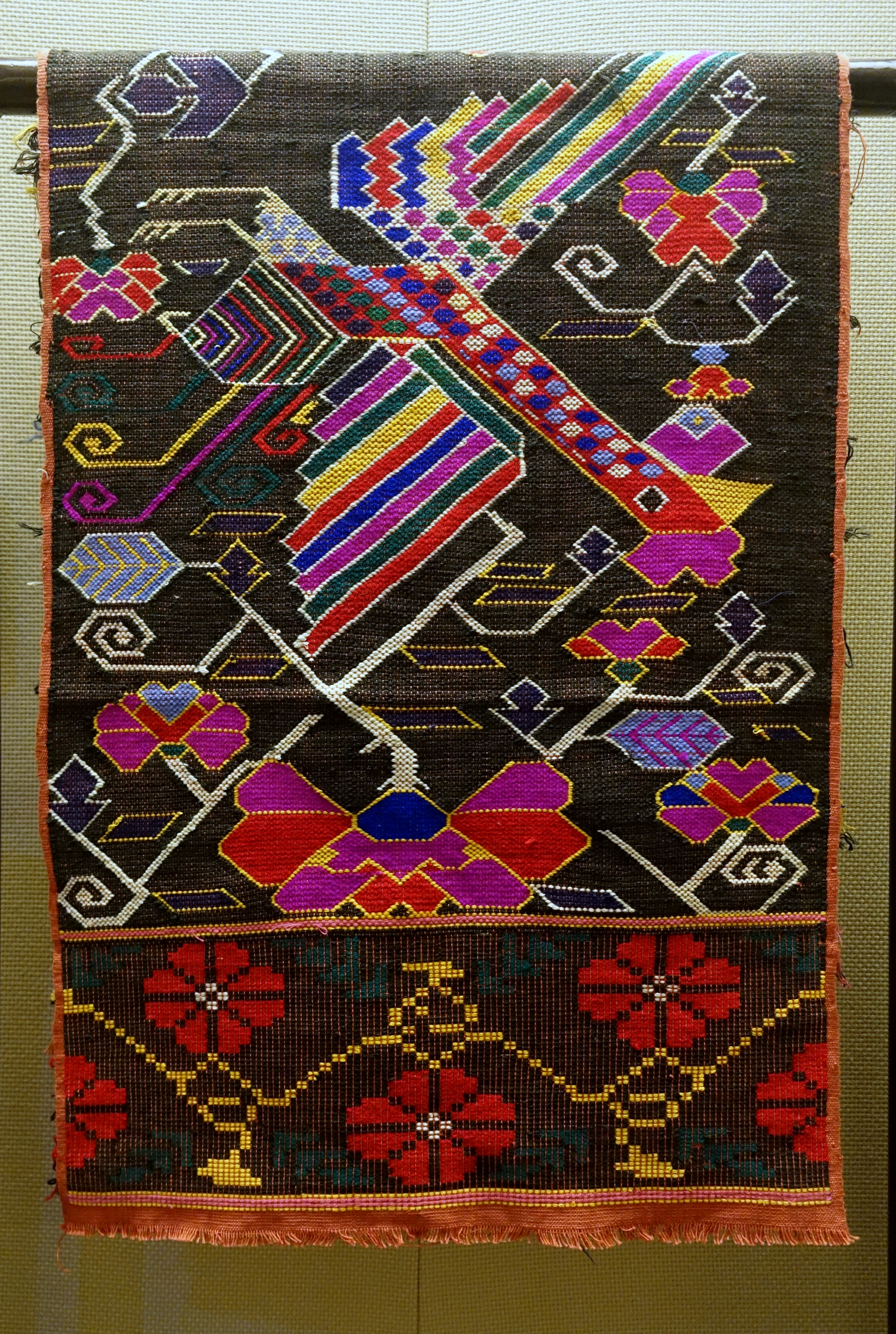 Exhibit in the Sichuan Provincial Museum (四川省博物院), also known as the Sichuan Museum, 251 Huanhua S Road, Chengdu, Sichuan, China.